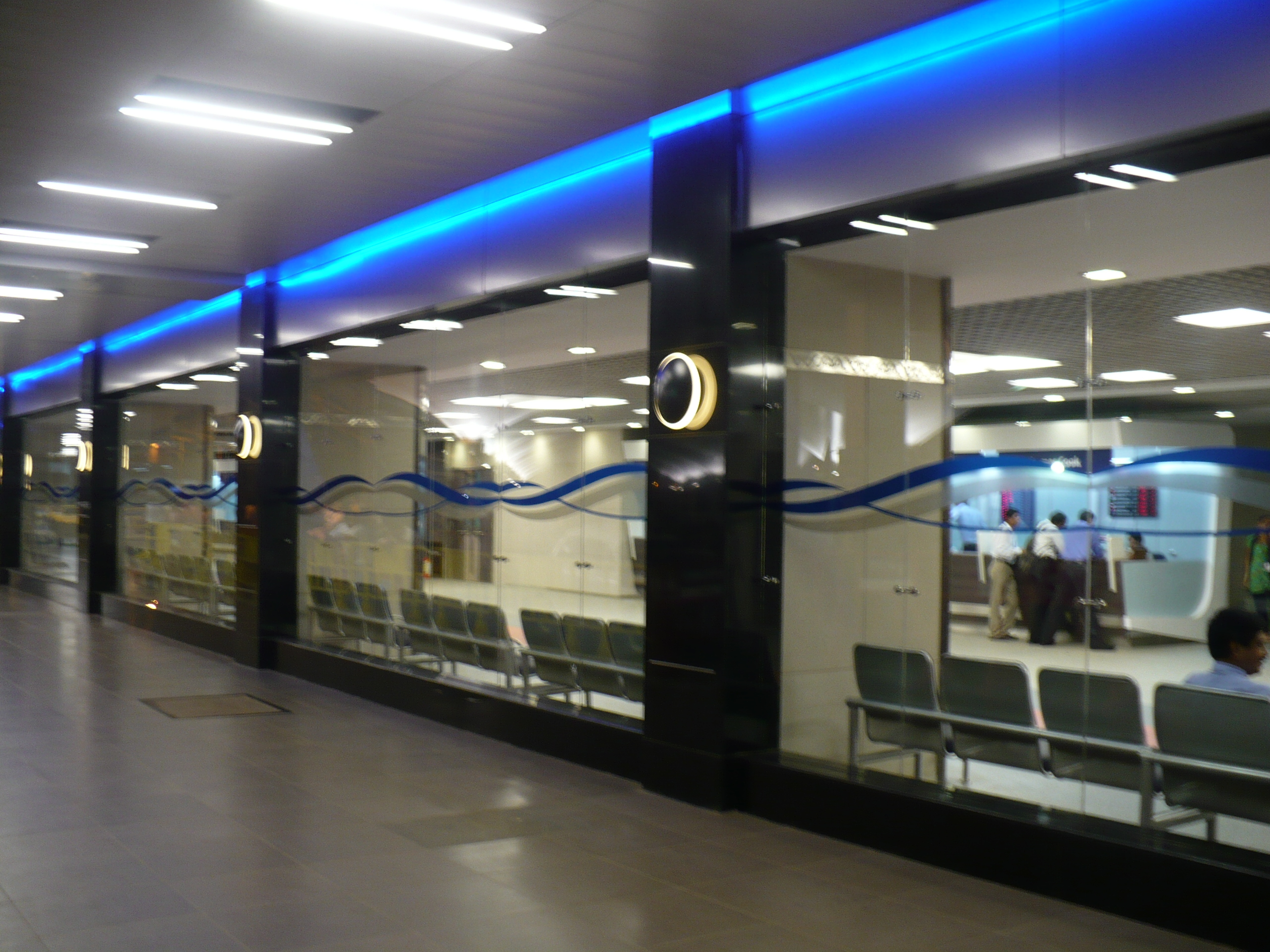 BOM